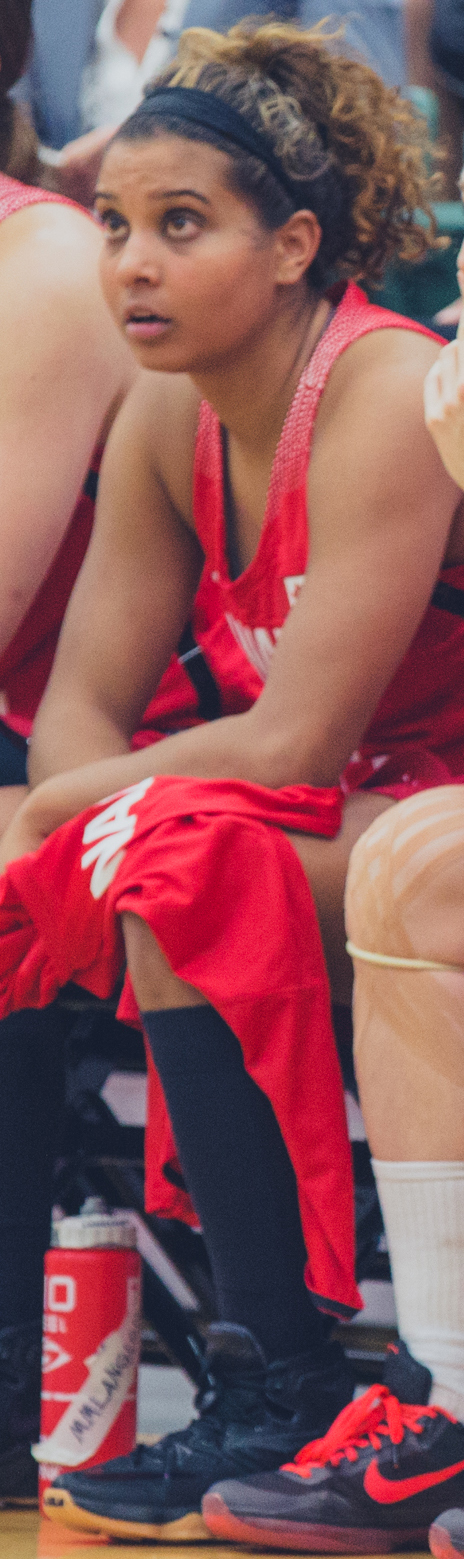 Miah-Marie Langlois sitting on the bench during the 2016 Edmonton Grads International Classic series